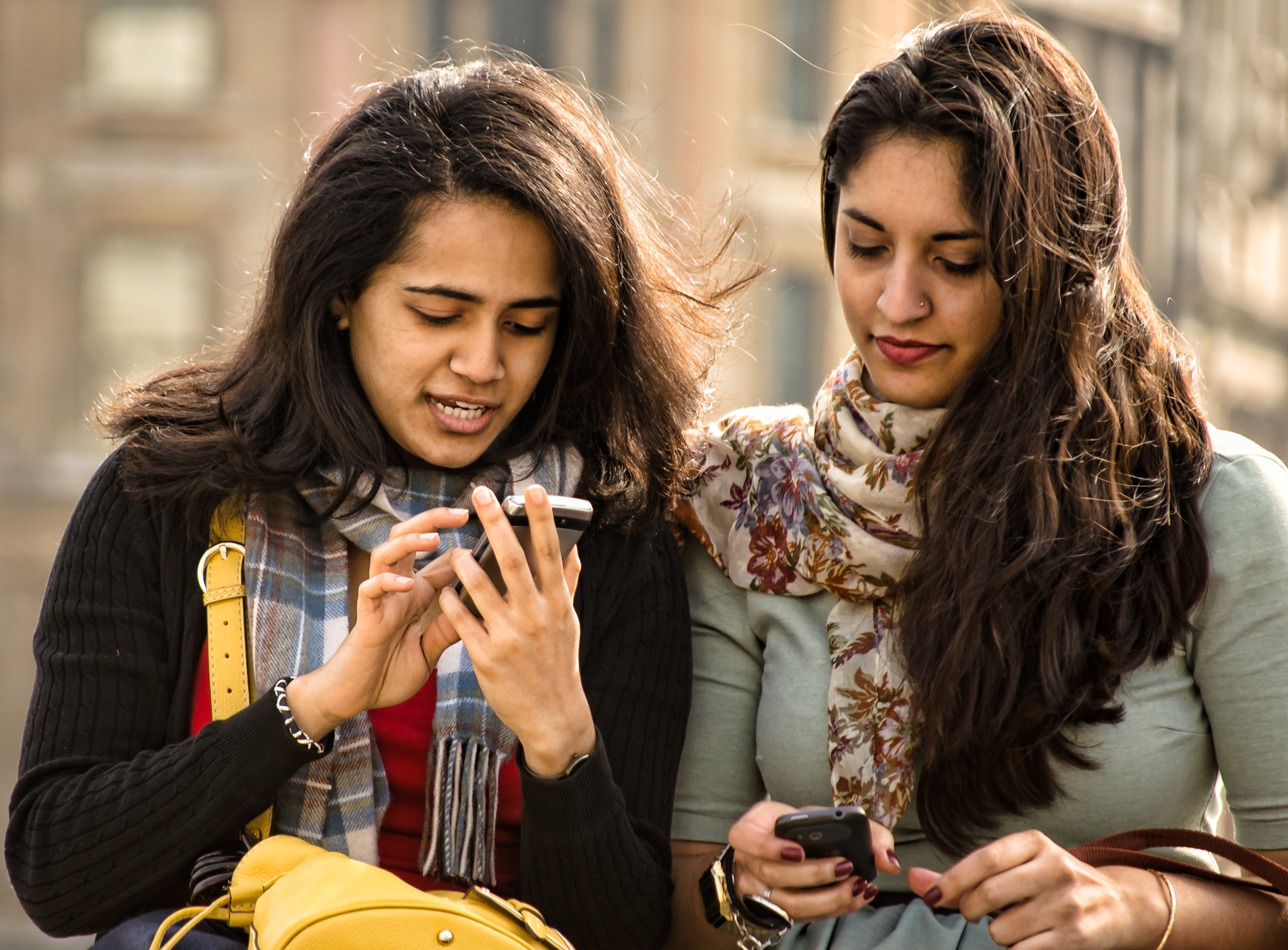 Now, instead of texting each other, you can text other people.